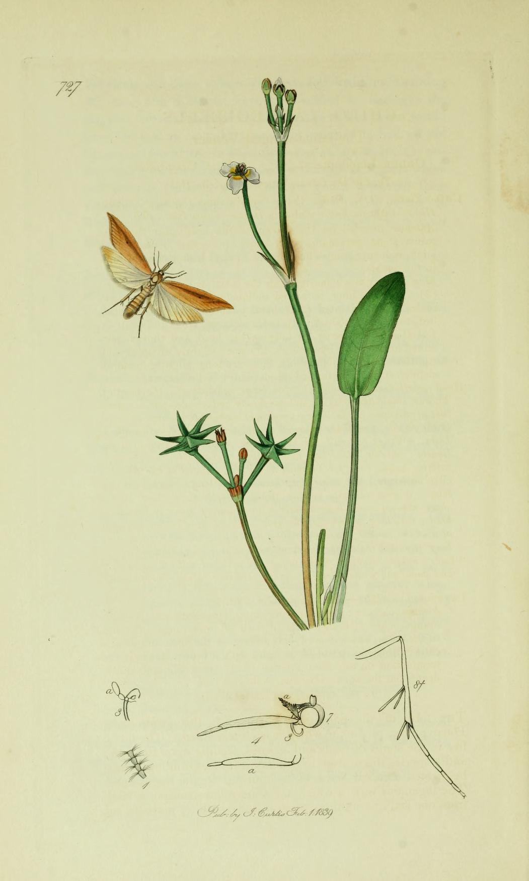 An illustration from British Entomology by John Curtis. Lepidoptera. Chilo lanceolellus Schoenobius (Donacaula) forficella (Lance-winged Veneer).